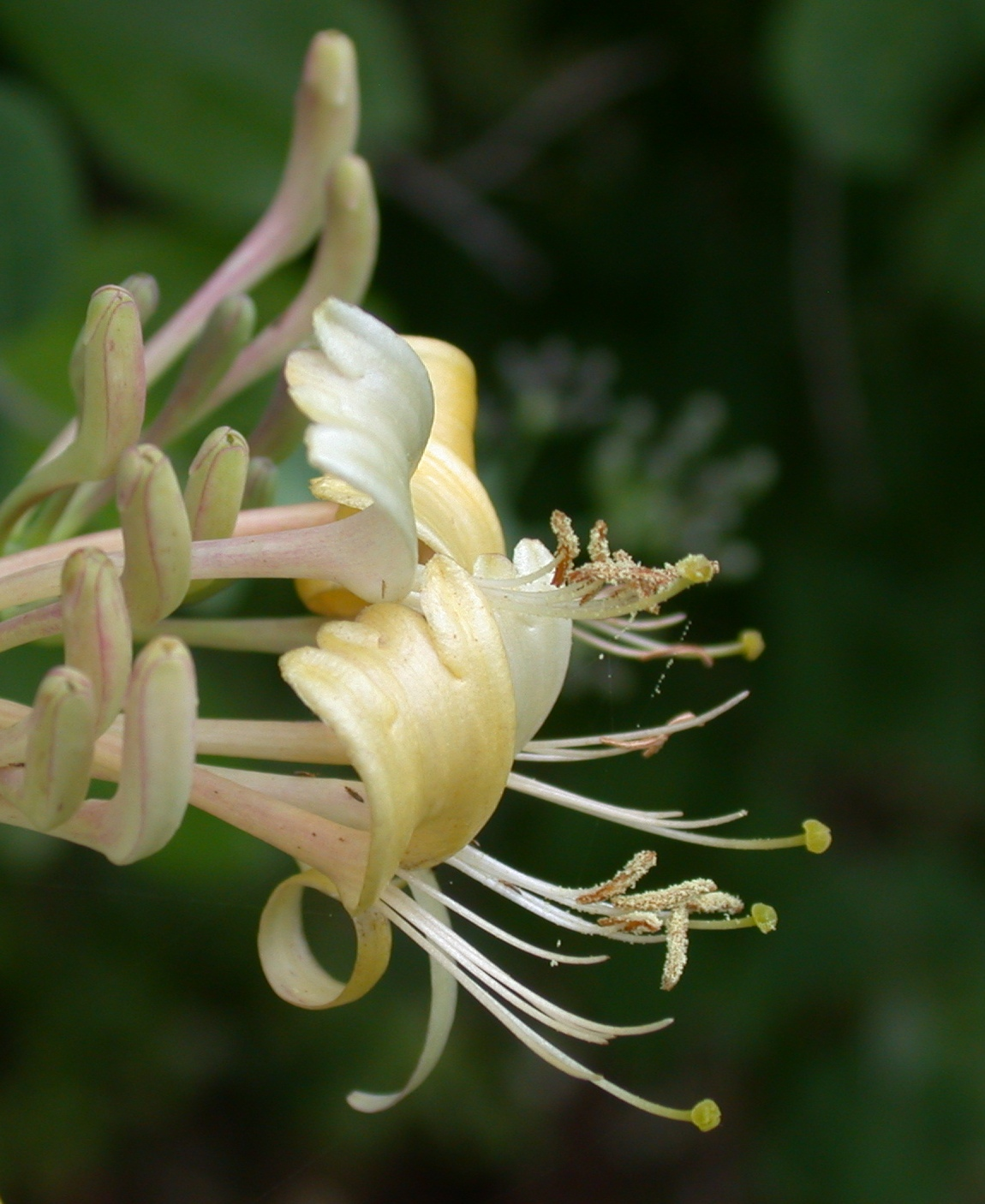 Flowers of Lonicera etrusca, Nachal Rakefet, Mount Carmel, Israel, April 18, 2006.